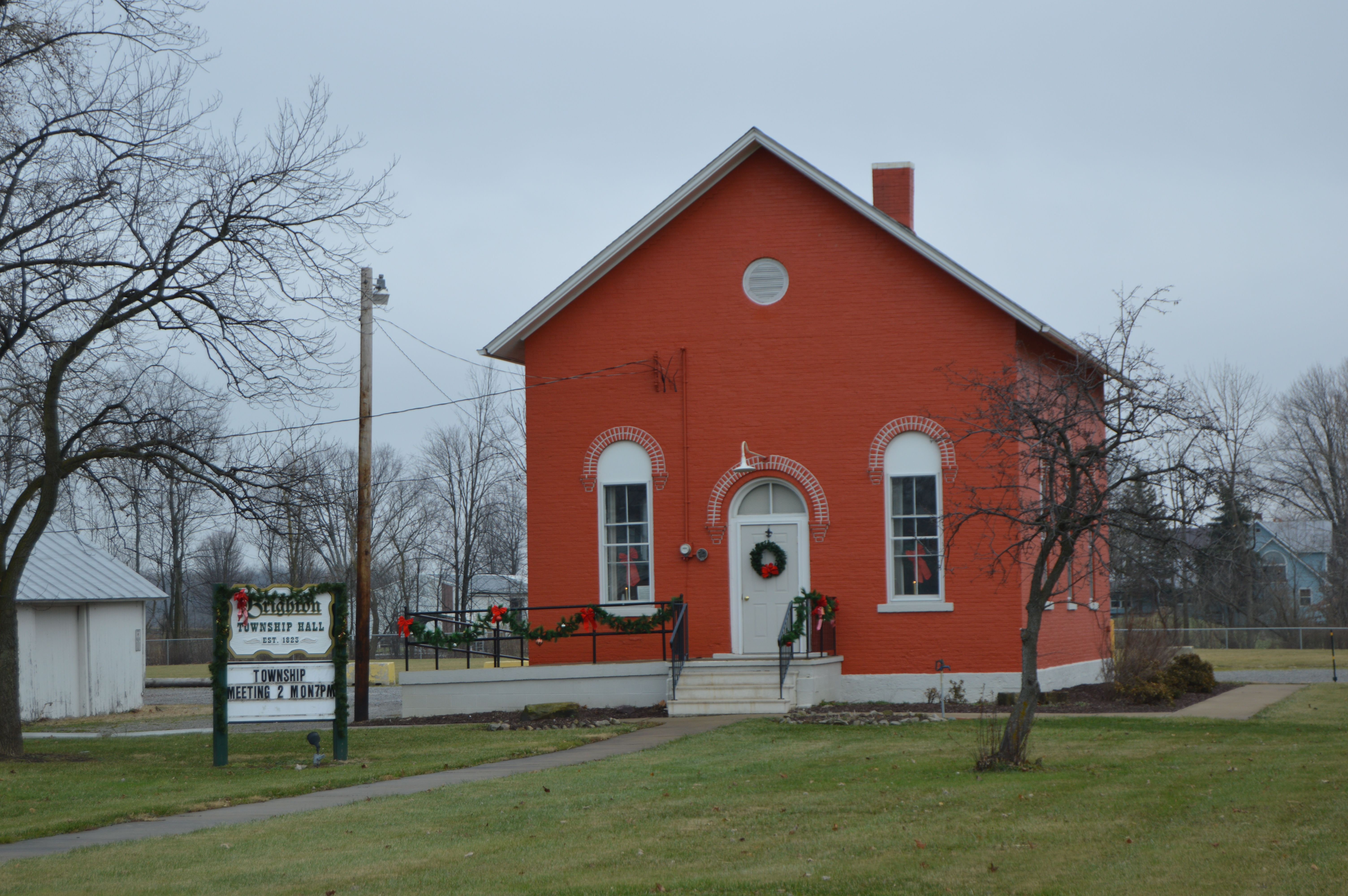 Front of the Brighton Township Hall, located on the northeastern corner of the junction of State Routes 18 and 511 at Brighton Center, Ohio, United States.